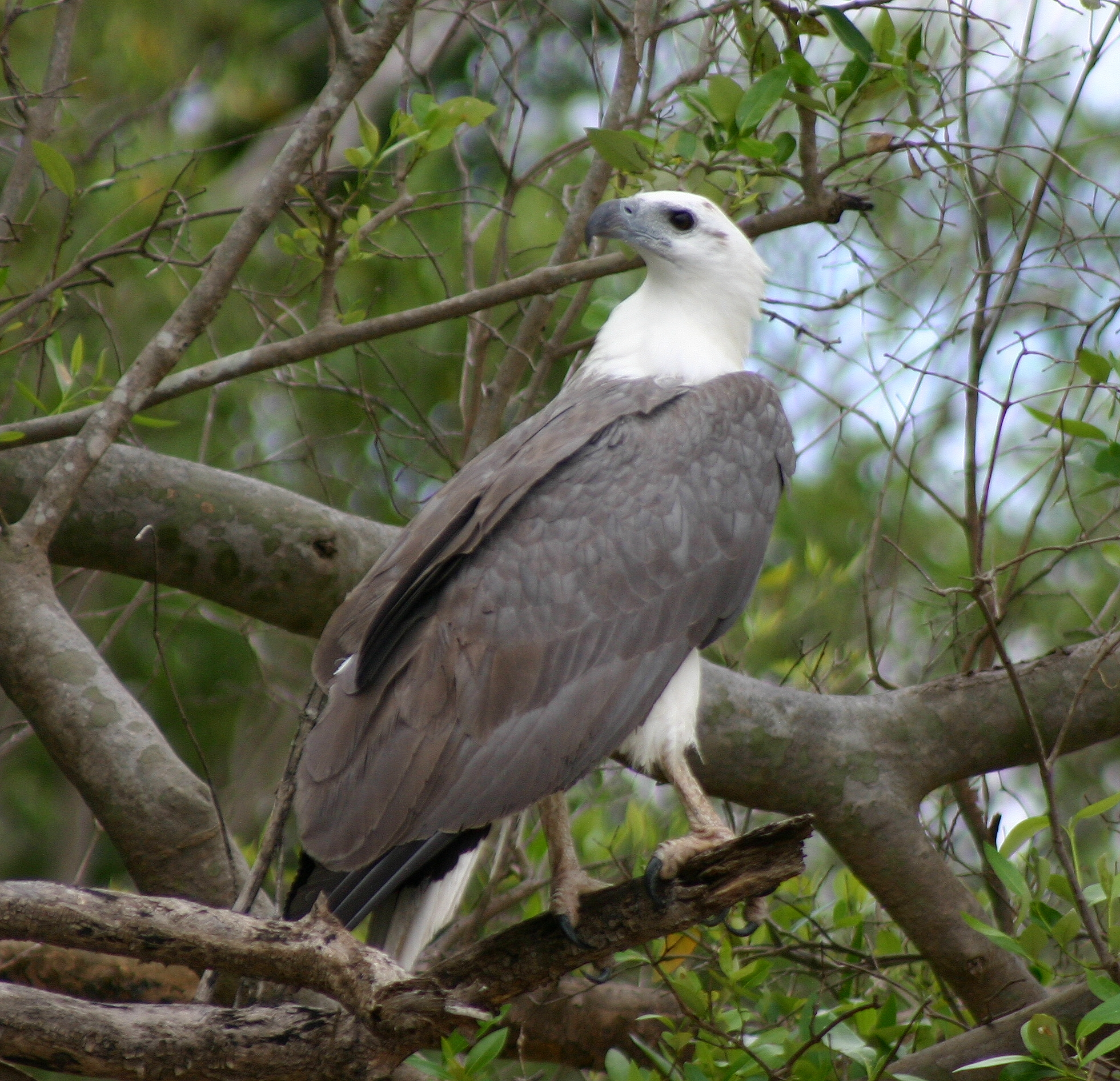 White Bellied Sea Eagle (Adelaide River, Darwin)